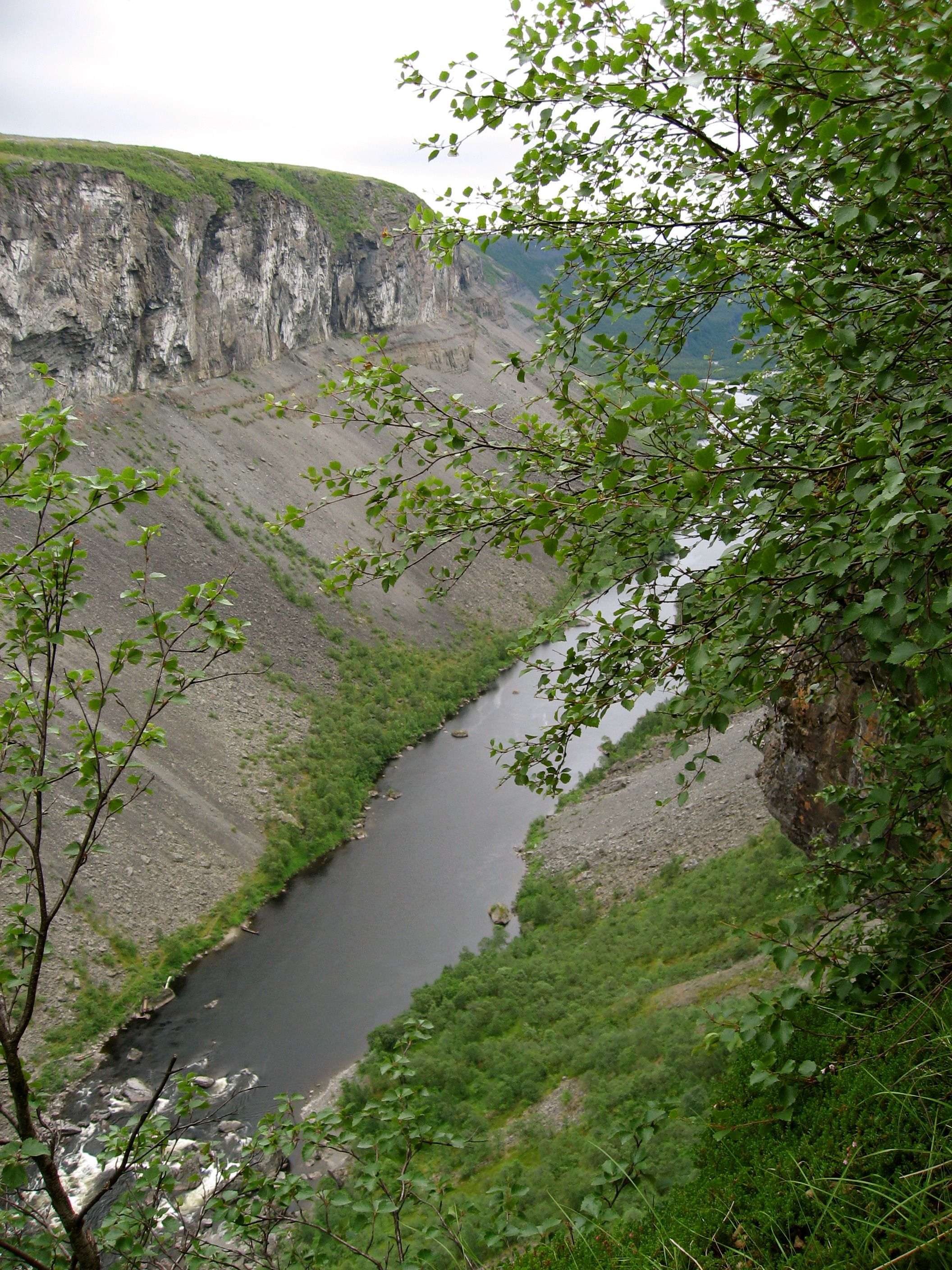 Altaelva at the bottom of its canyon.